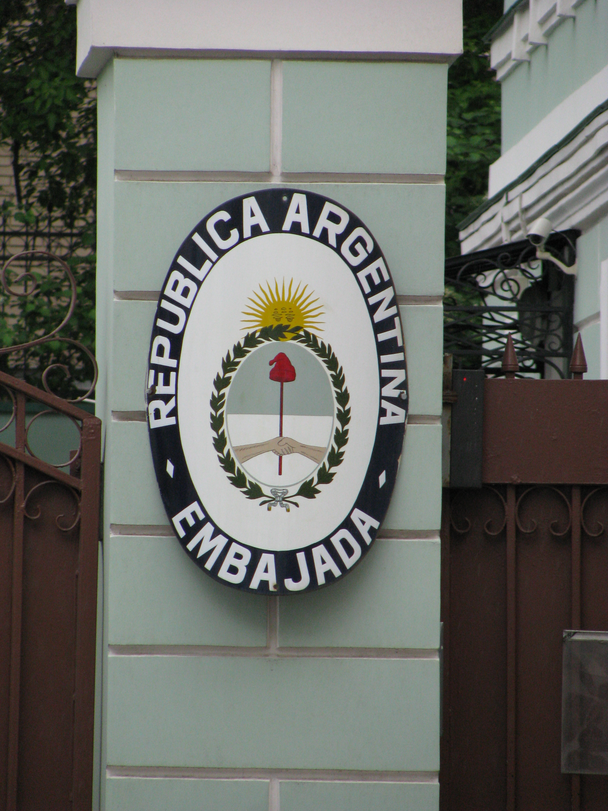 (Right:) Embassy of Argentina in Russia - 72 Bolshaya Ordynka Street, Moscow